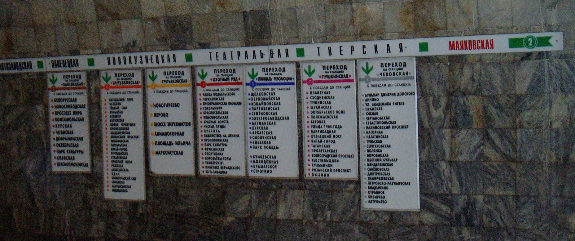 Metro Moscow, List of next Stations